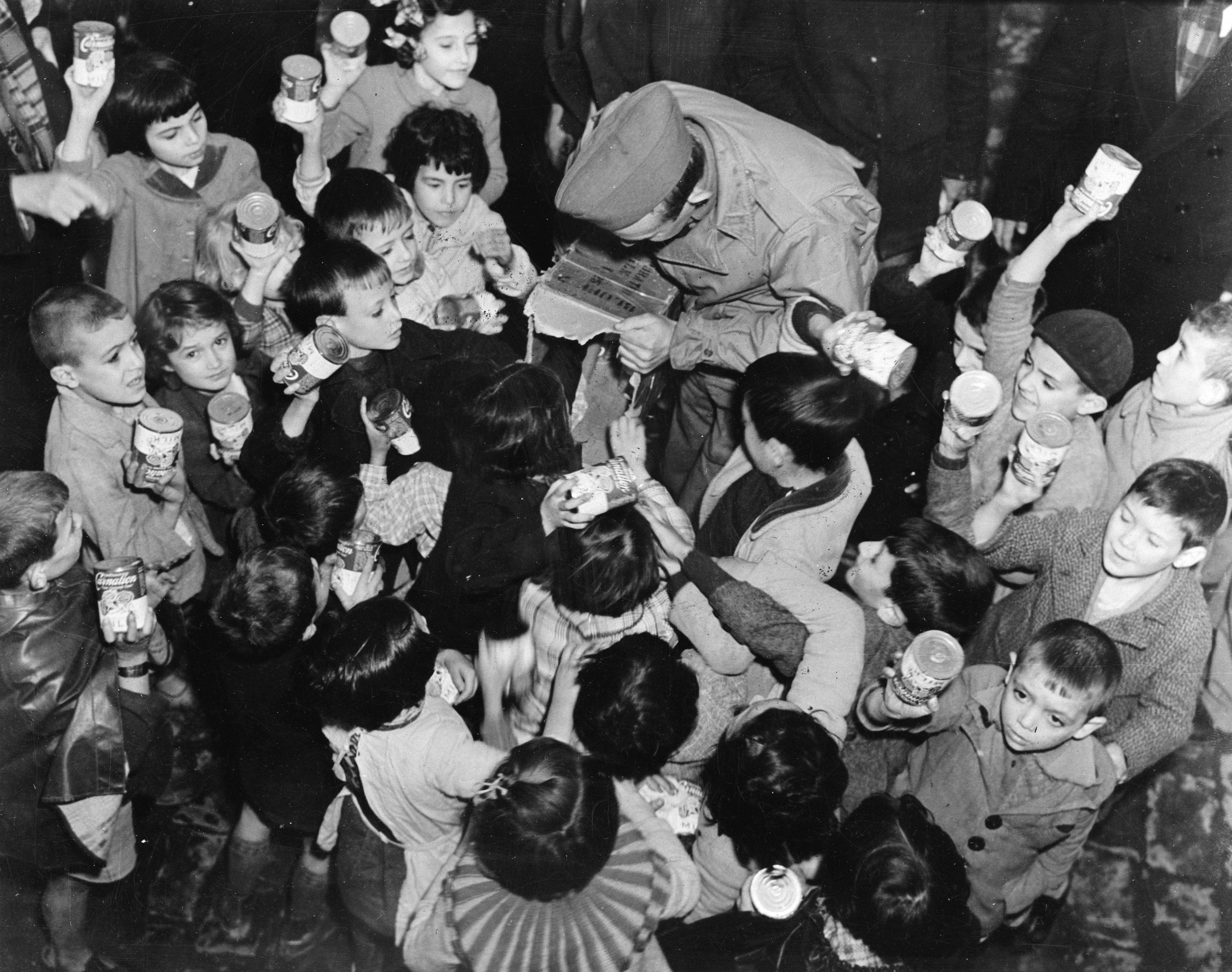 Oran, Algeria. American soldiers stationed at Oran, Algeria, donated half of their milk rations to French youngsters. Sergeant Paul Myers of Kansas City, Missouri, distributing cans of milk to the children